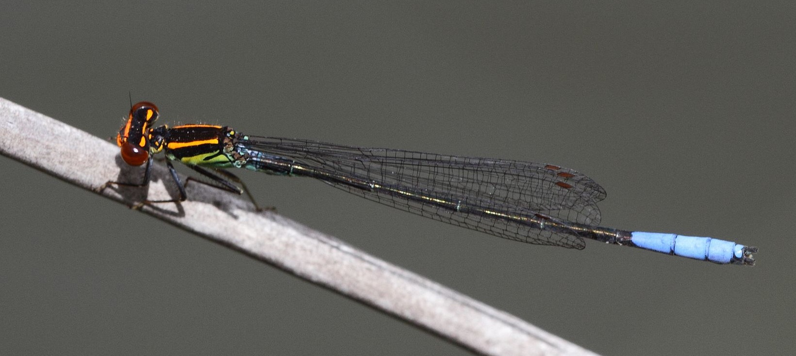 Male Harlequin Sprite (Pseudagrion newtoni); near Helpmekaar, KwaZulu-Natal, South Africa. OdonataMAP record 13101